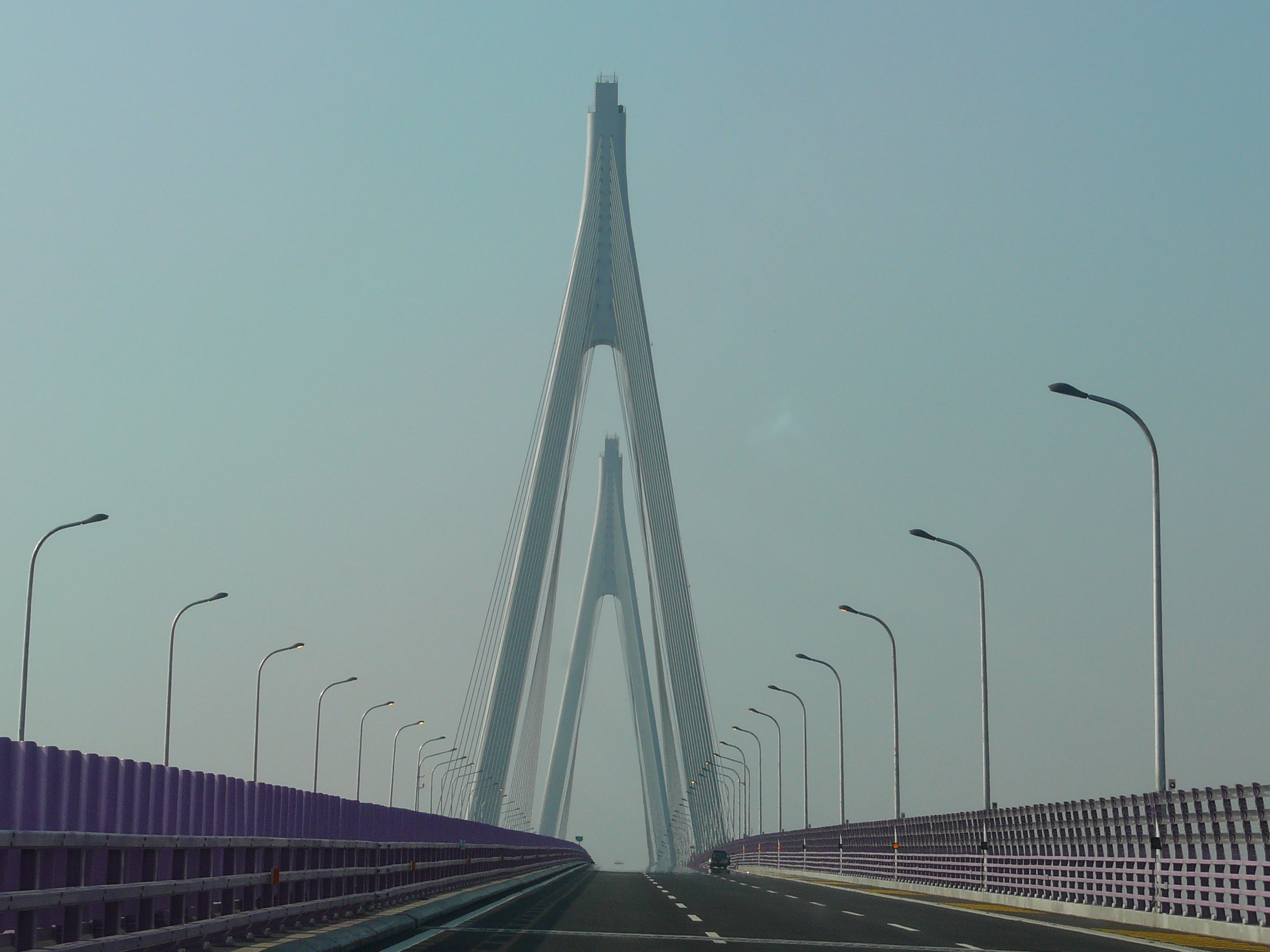 The twinned towers of the Hangzhou Bay bridge, from the northbound span.